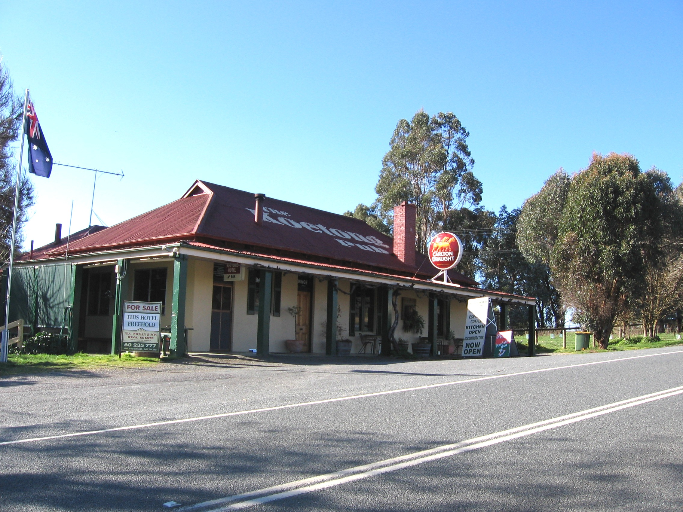 Koetong Hotel at Koetong, Victoria